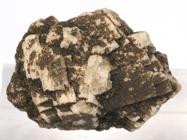 Anorthite Locality: Miyake Island (Miyake-jima), Izu Archipelago, Tokyo Prefecture, Japan (Locality at ) Size: 2.4 x 1.7 x 1.7 cm. Anorthite is the calcium-rich end member of the albite-anorthite feldspar series. This old-time thumbnail is from a classic Japanese locality - Miyake Island and is a floater cluster of sharp, grayish-white anorthite crystal partially coated with a film of blackish glassy lava. Miyake Island is a small island with an active volcano and is famous as the classic locality for anorthite crystals, thousands of which were thrown out loose by the 1870 eruption and distributed in collections around the world. Accompanied by an expertly handwritten, faded label from an older collection. The collection this came out of was a museum stash dating to prior to World War I.